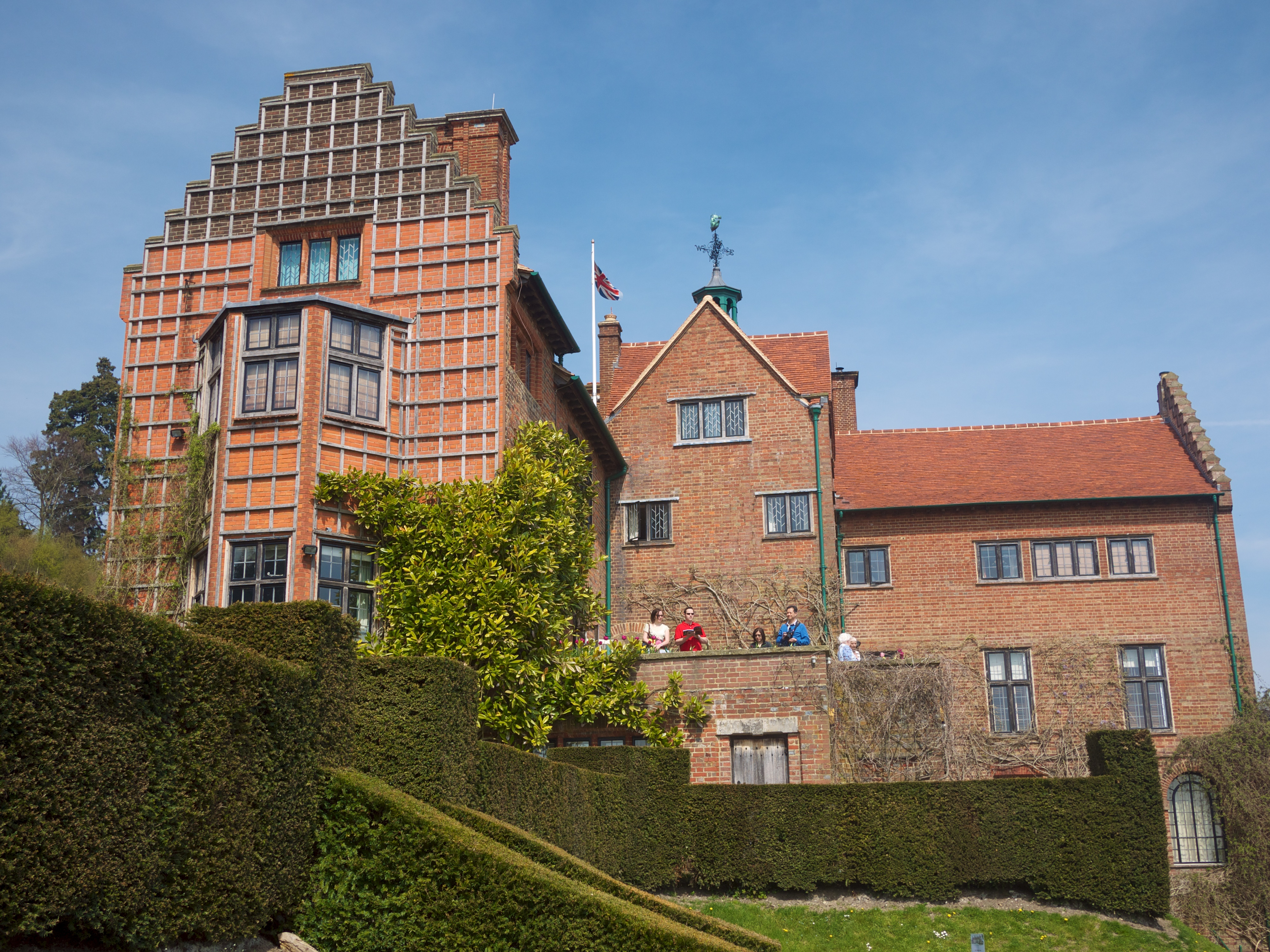 Chartwell House, Kent, England.